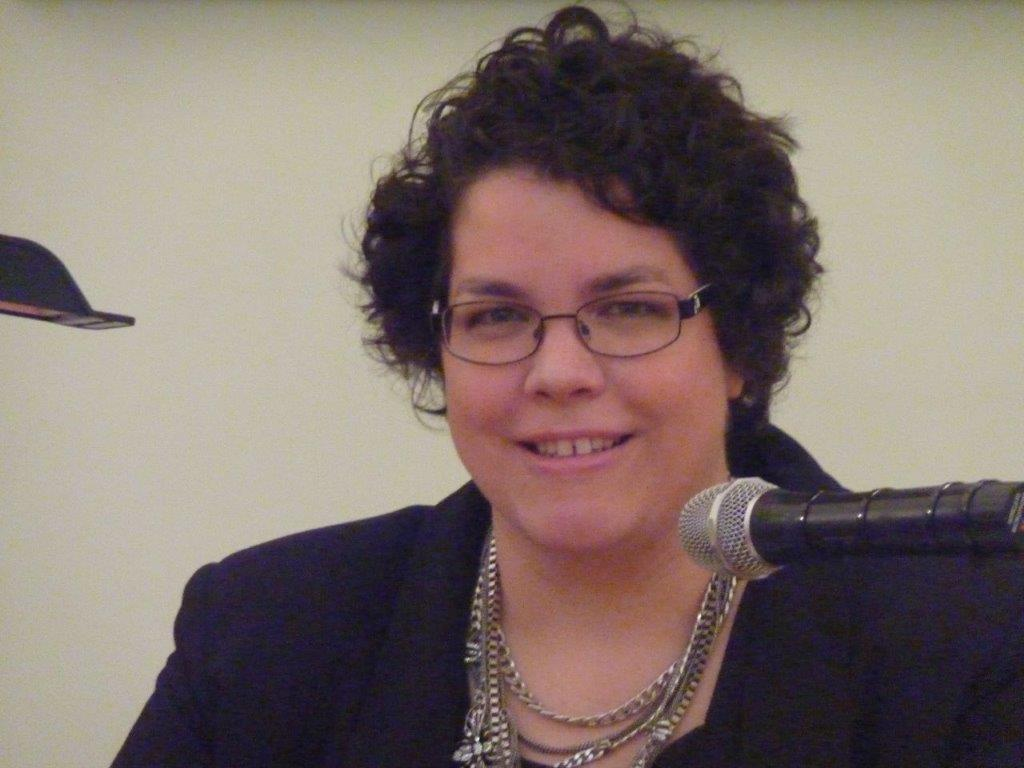 Kristina Herzog, author, at a reading in Berlin